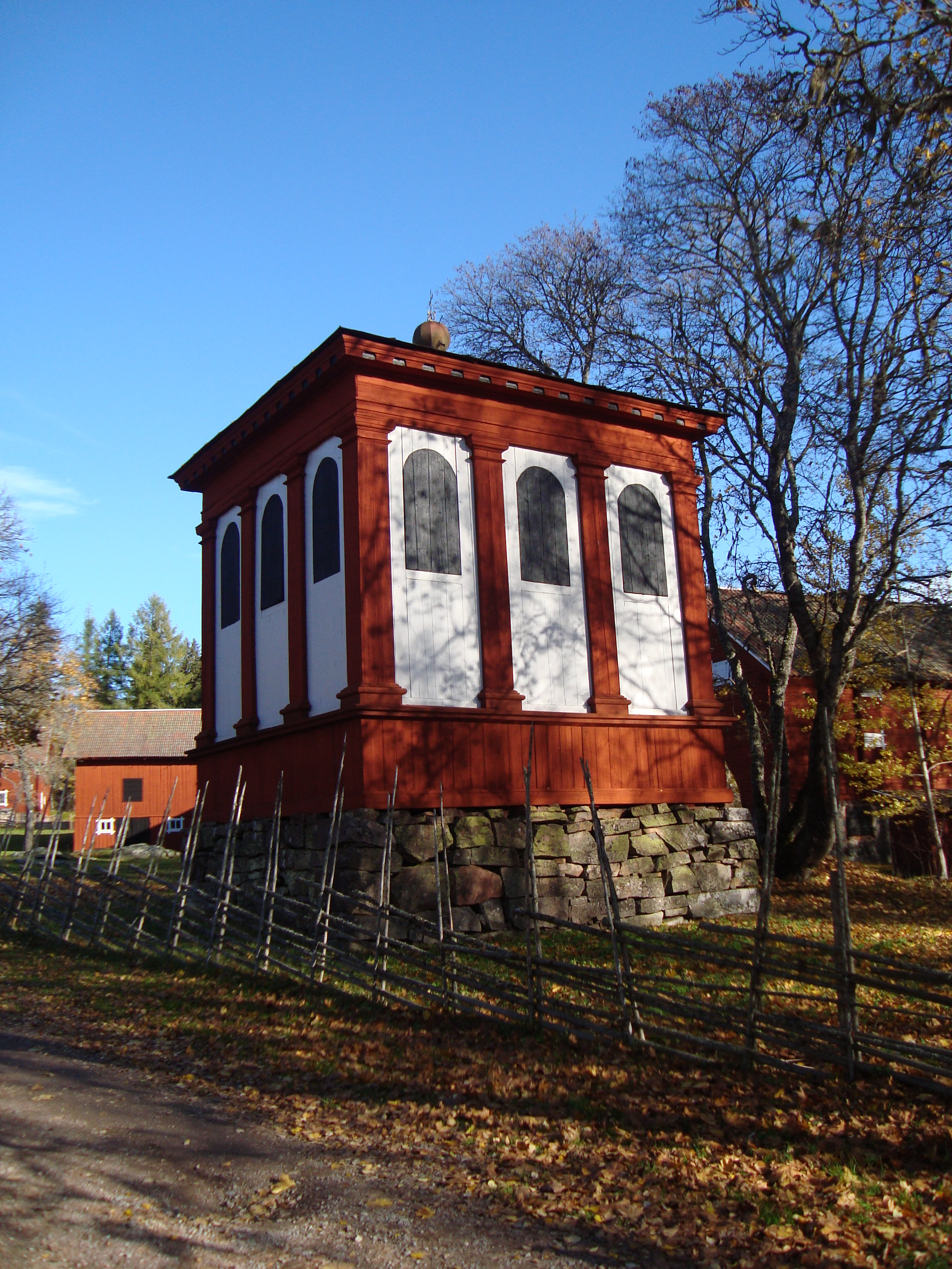 Belltower of Chapel of Norn, Hedemora municipality, Sweden